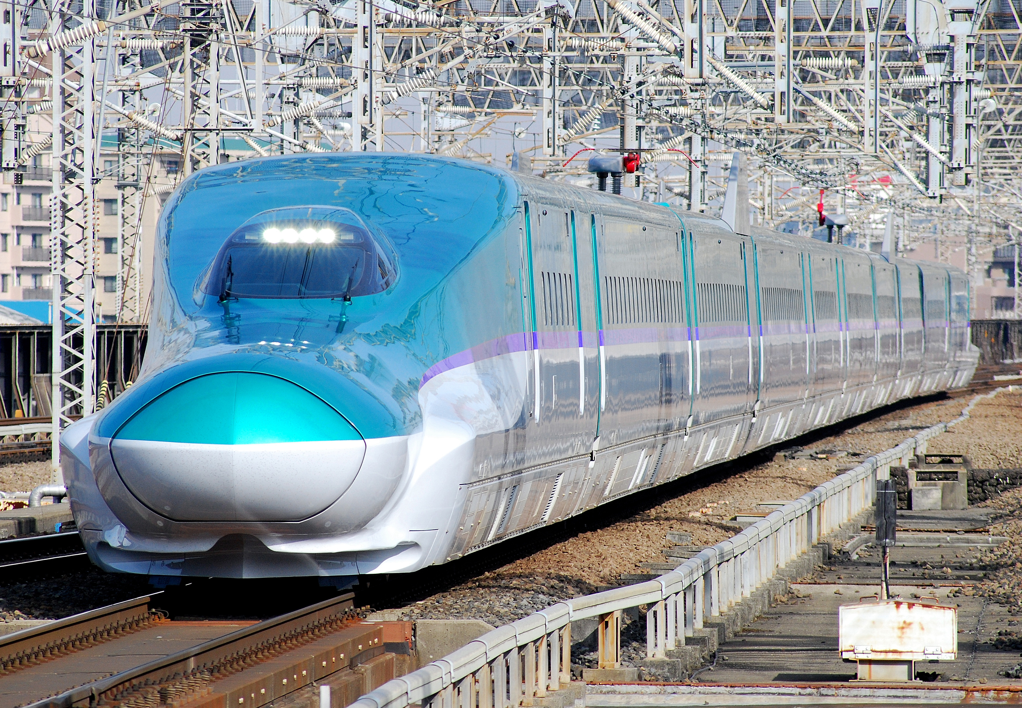 A digitally altered image (of a JR East E5 series train at Omiya Station) showing how the JR Hokkaido H5 series trains are expected to appear